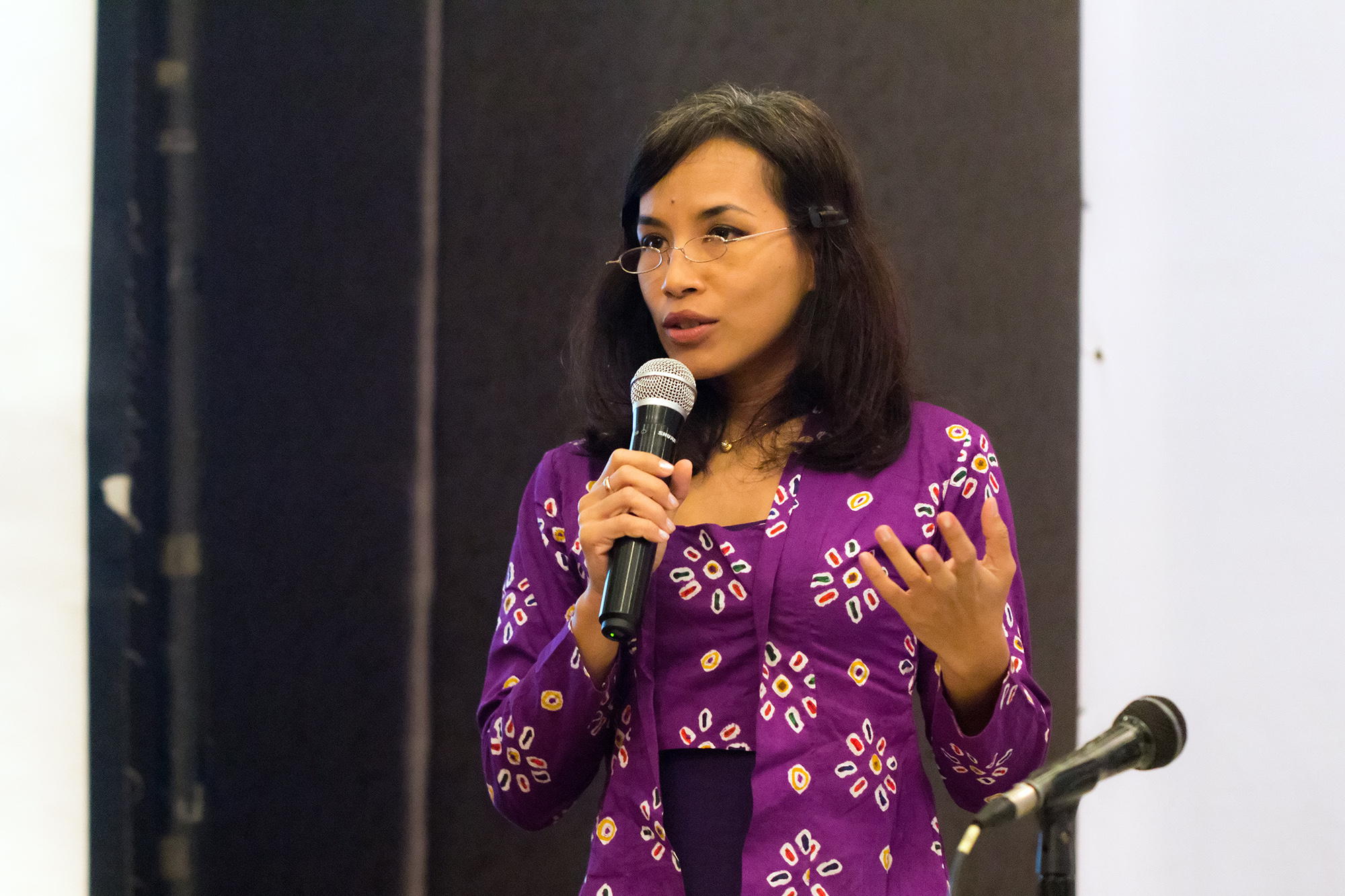 Ayu Utami, an Indonesian novelist, journalist, and feminist writer, launching a poetry collection by Yacinta Kurniasih at the International Conference on Feminism on 24 September 2016. This conference was held by Jurnal Perempuan at the Swiss-Belhotel in Kemang, Jakarta, in commemoration of its twentieth year.